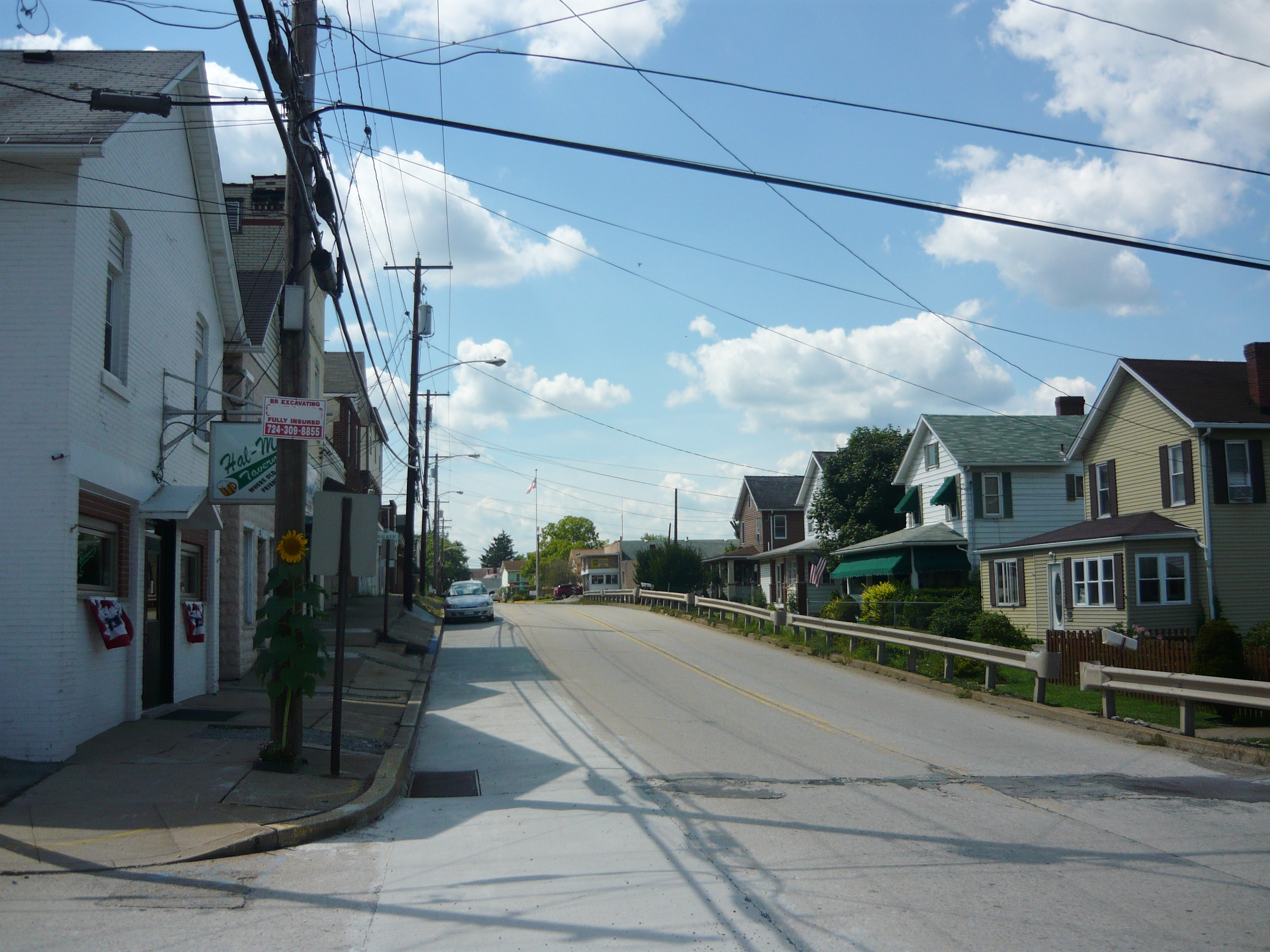 Looking west on Sewickley Avenue from 3rd Street, Herminie, Sewickley Township, Westmoreland County, Pennsylvania.